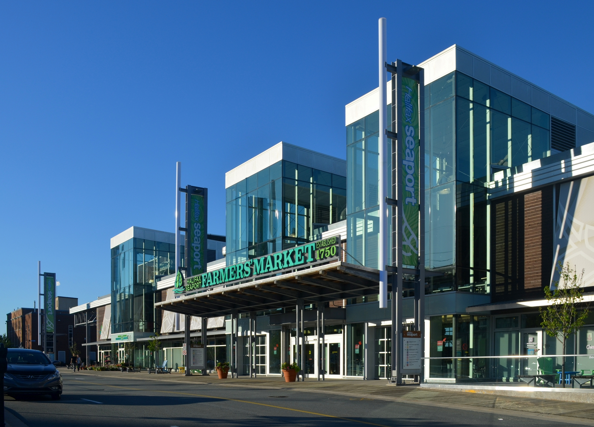 The Halifax Seaport Farmers Market.